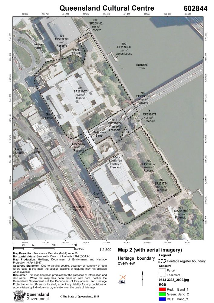 602844 - Queensland Cultural Centre - Map 2 (2017)